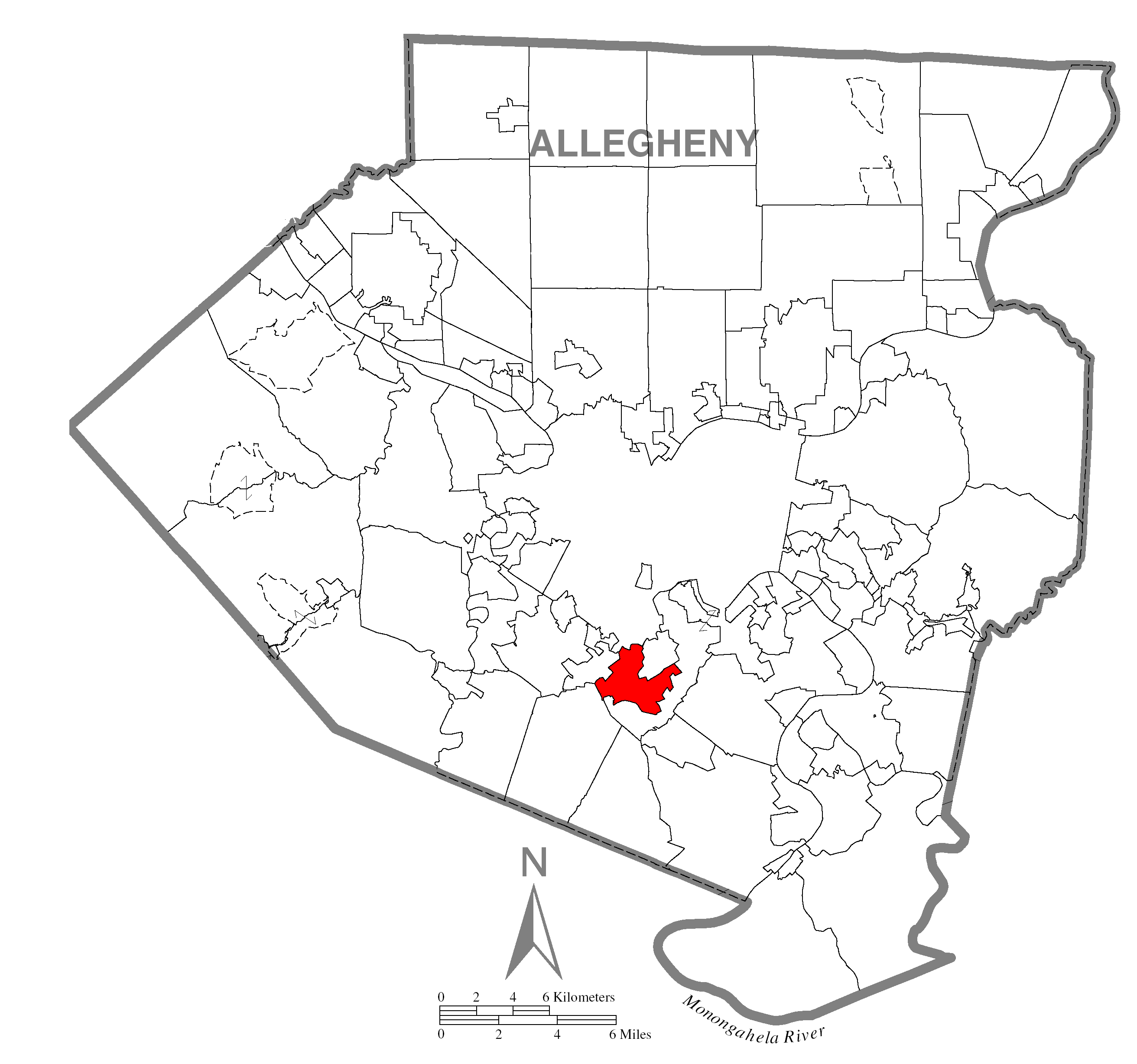 A map of Allegheny County showing Whitehall, Pennsylvania (alternate) highlighted on the map.